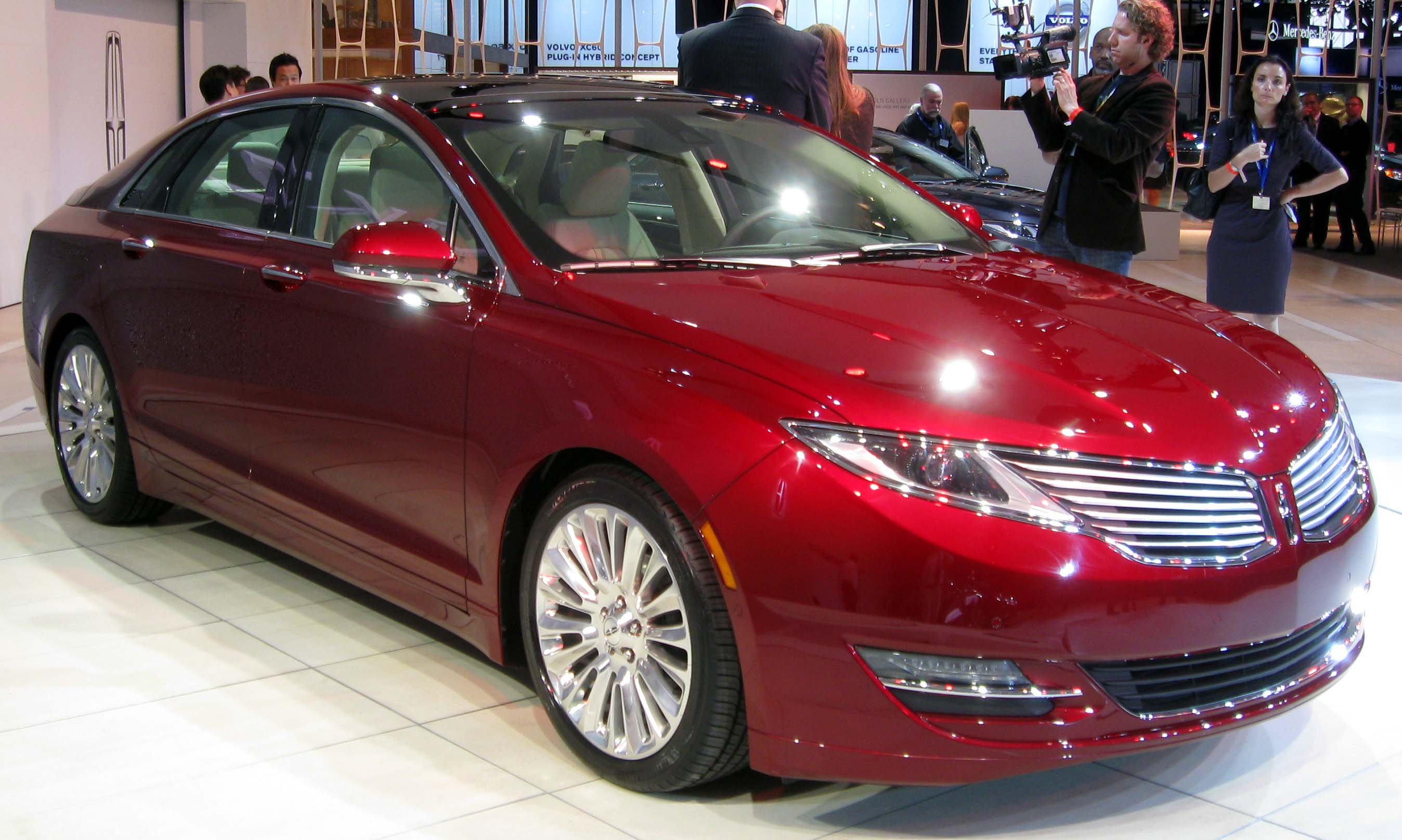 2013 Lincoln MKZ photographed at the 2012 New York International Auto Show.